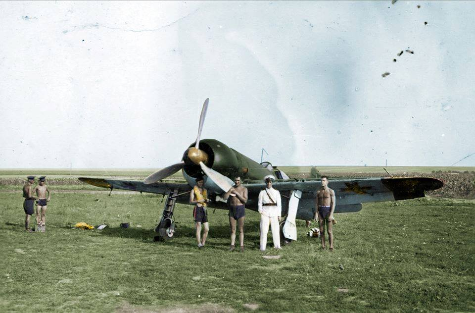 IAR-80 on the eastern front undergoing maintenance